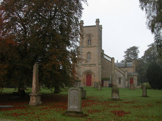 Cranston Church and churchyard